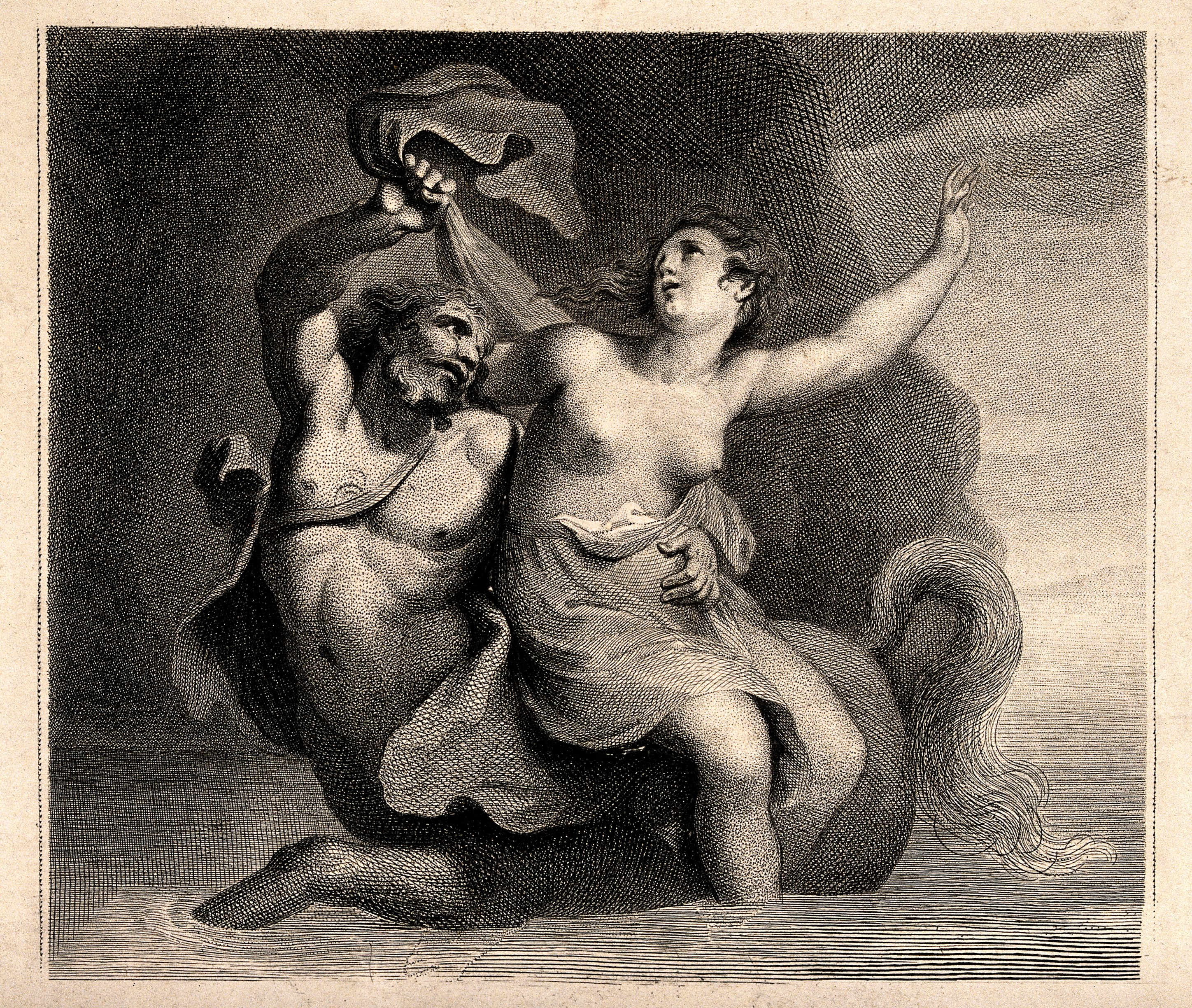 Nessus raping Deianeira. Etching. Iconographic Collections